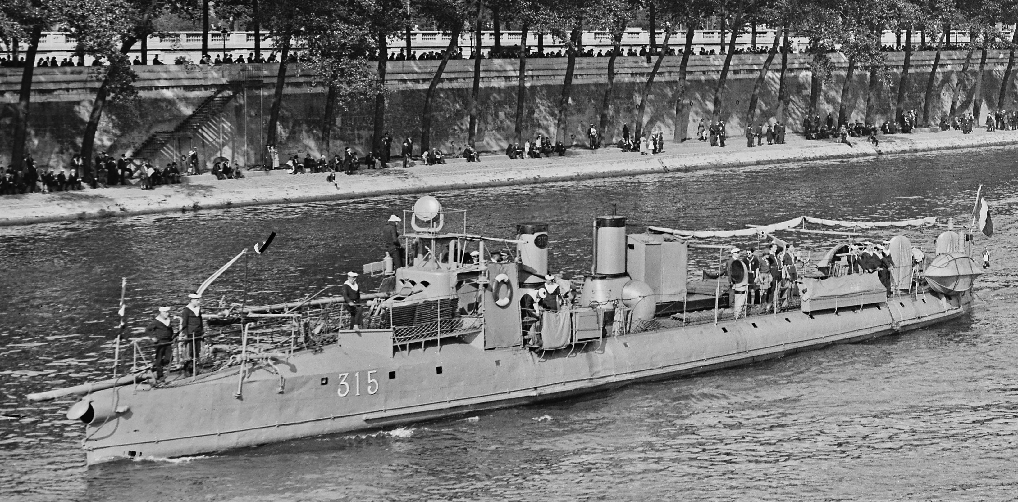 Torpedo boat 315 (Type 38 m) of the French Marine nationale on the Seine, Paris, during a naturical festival.